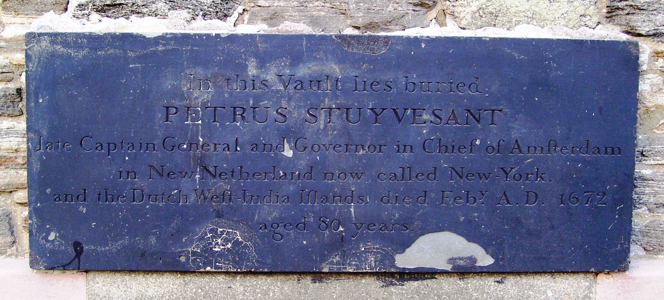 The cover of the burial vault in which the remains of Petrus Stuyvesant (Peter Stuyvesant) are interred, on the west wall of St. Mark's Church in-the-Bowery in the East Village, Manhattan, New York City.